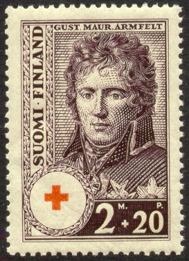 Postage stamp depicting the Finnish diplomat and general Gustav Mauri Armfelt